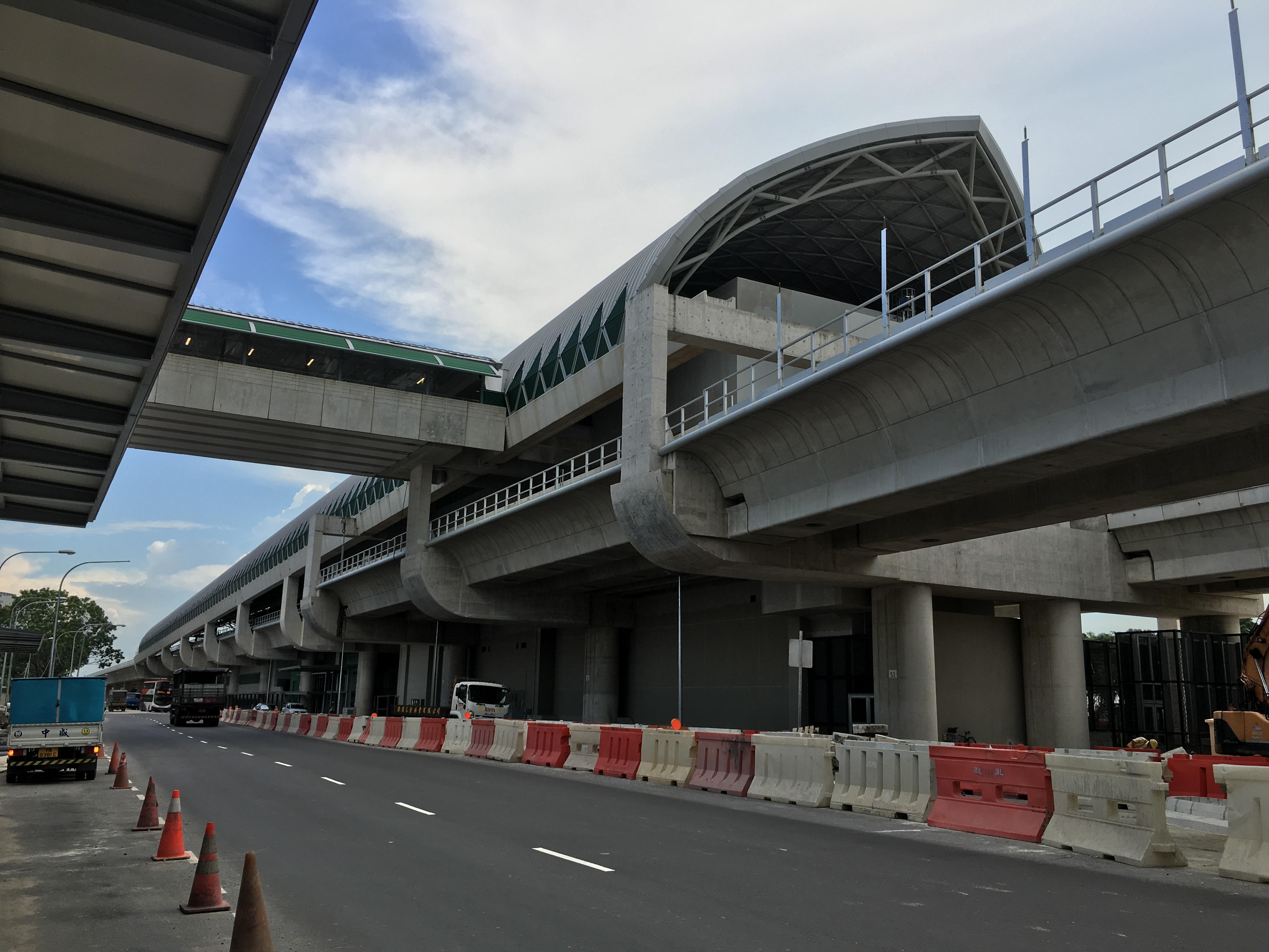 Tuas Link MRT Station near completition